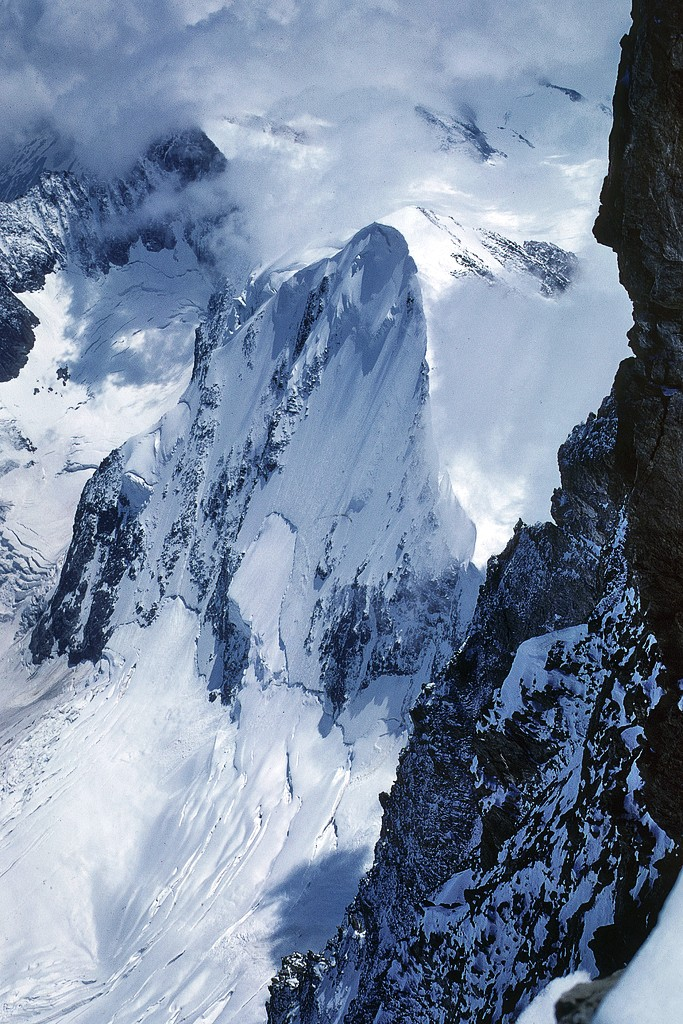 Summit of Finsteraarhorn, the summit below is Studerhorn